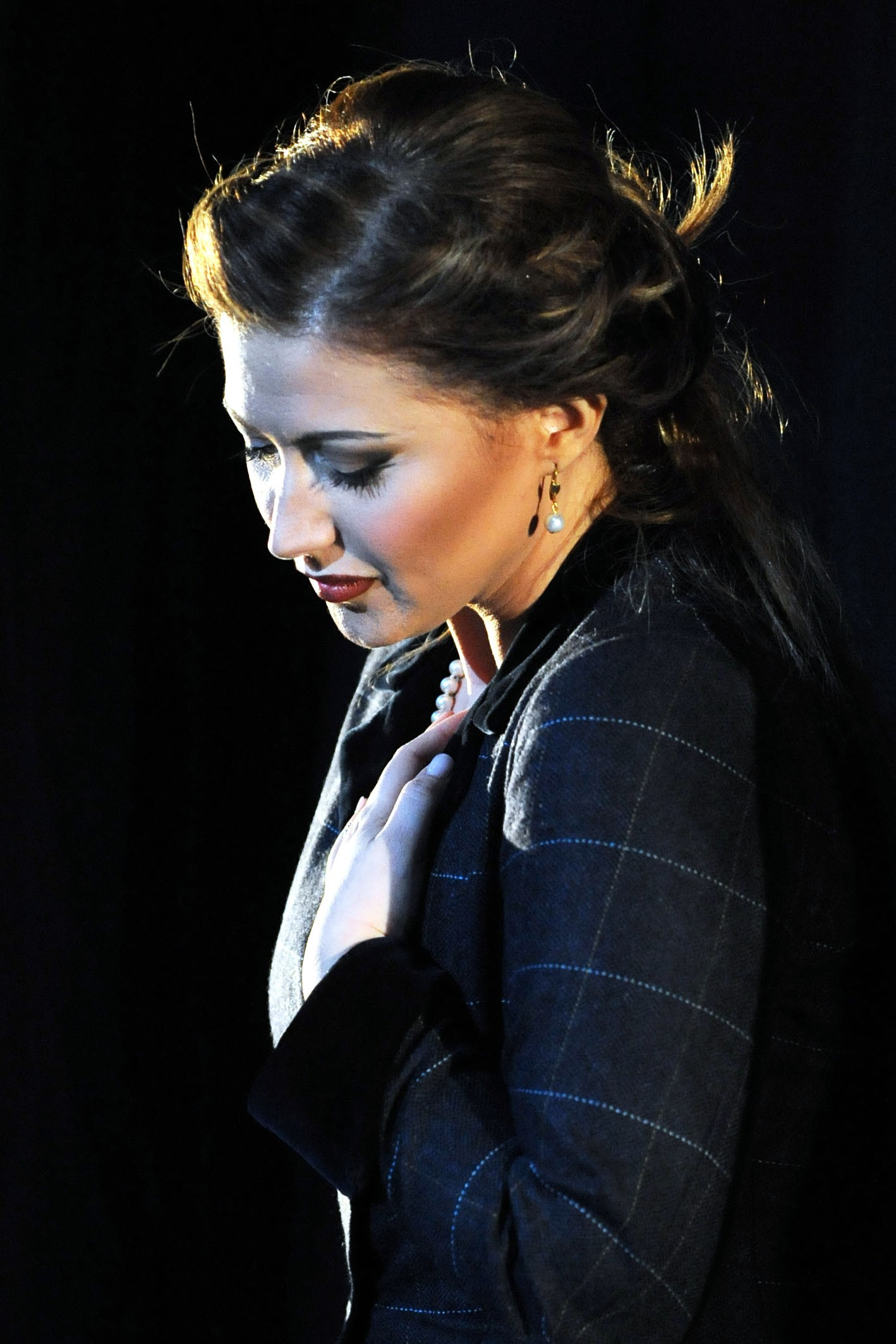 Desirée Rancatore as Lucia in the opera Lucia di Lammermoor by the composer Gaetano Donizetti